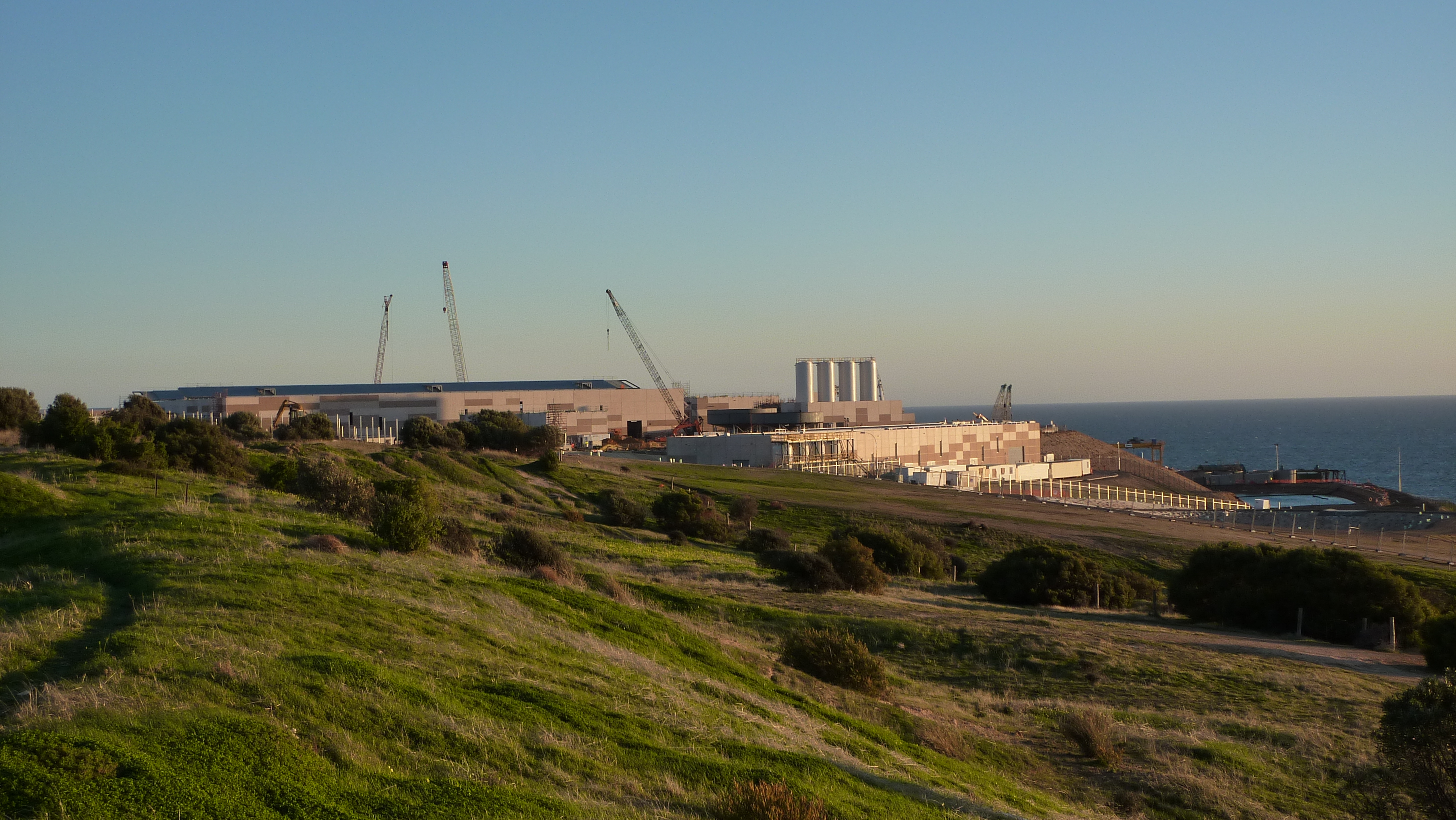 Port Stanvac Desalination Plant (under construction). View from the north (Hallett Cove/Lonsdale border area).